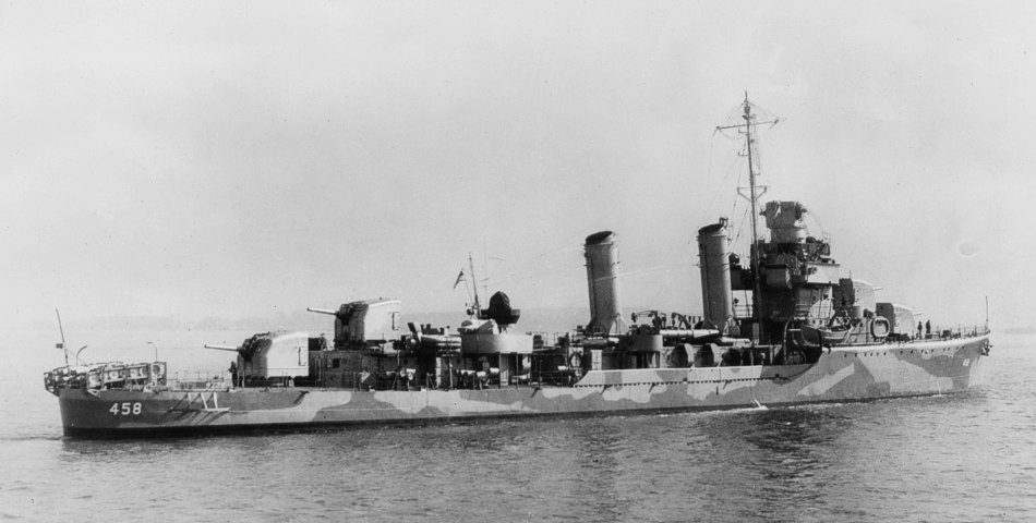 The U.S. Navy destroyer USS Macomb (DD-458) off Boston, Massachusetts (USA), on 14 April 1942. She is painted in Camouflage Measure 12 (Modified).